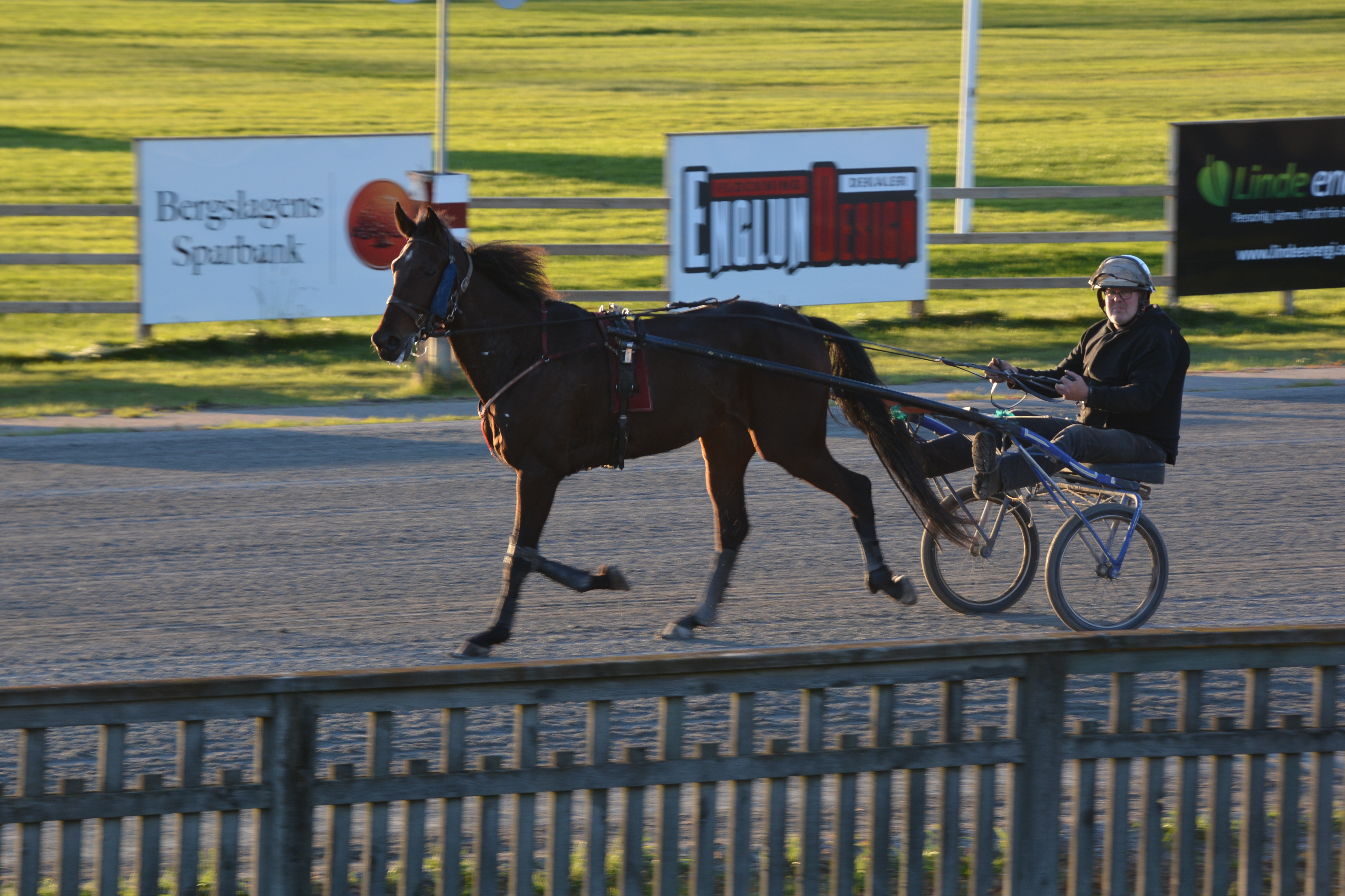 Träning av travhäst